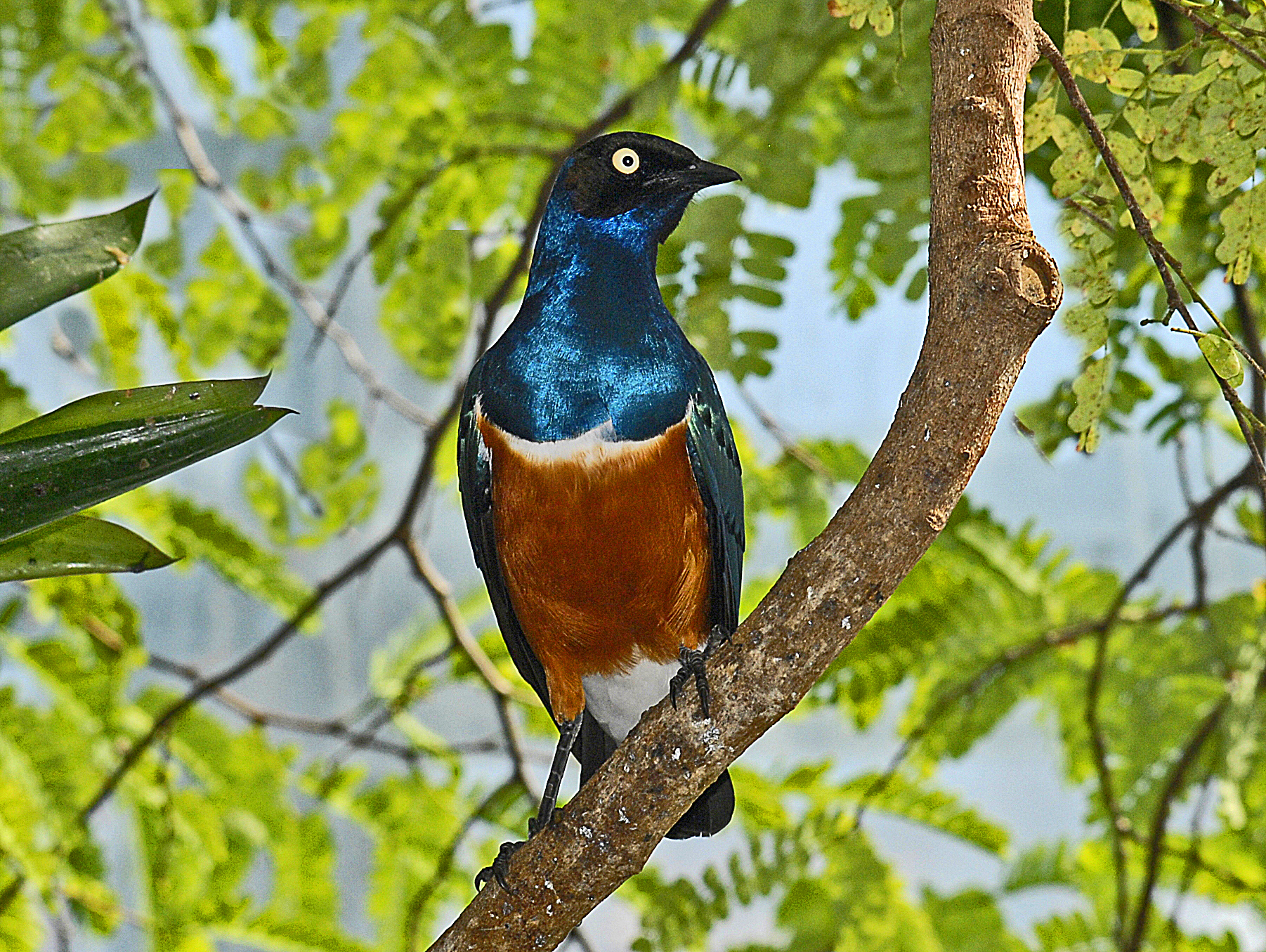 Lamprotornis superbus